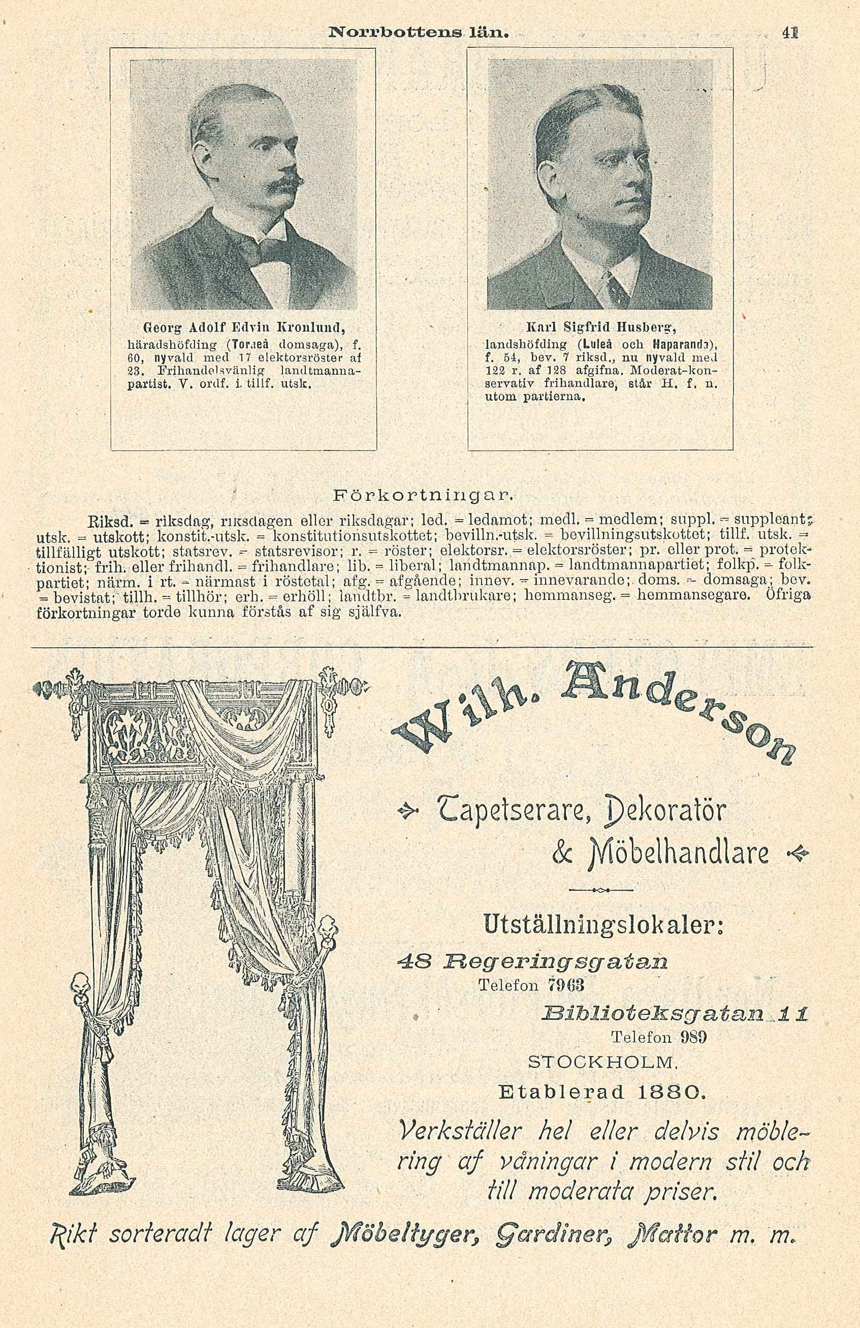 Page 41 of an album featuring portraits of all the members of the second chamber of the Swedish parliament (Sveriges riksdag) elected in 1897. This page featuring parts of the members representing the county of Norrbotten.